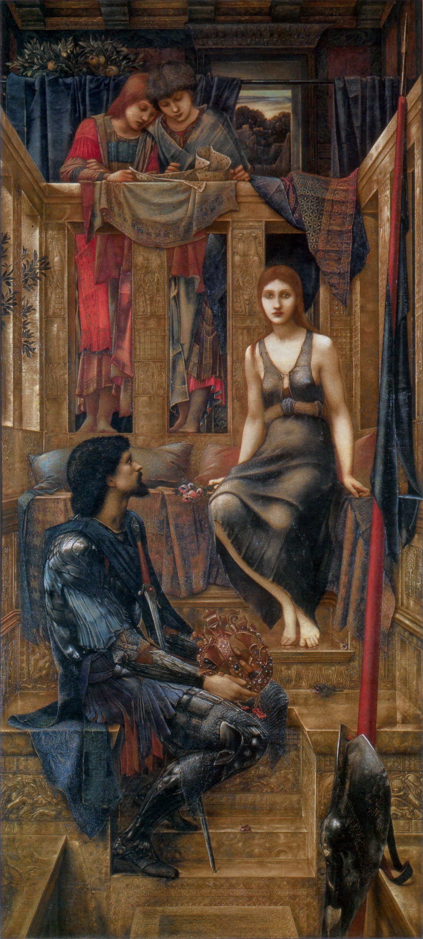 "King Cophetua and the Beggar Maid", 1880-84, Oil on canvas, 112 1/2 x 53 1/2 in (290 x 136 cm), signed EBJ 1884